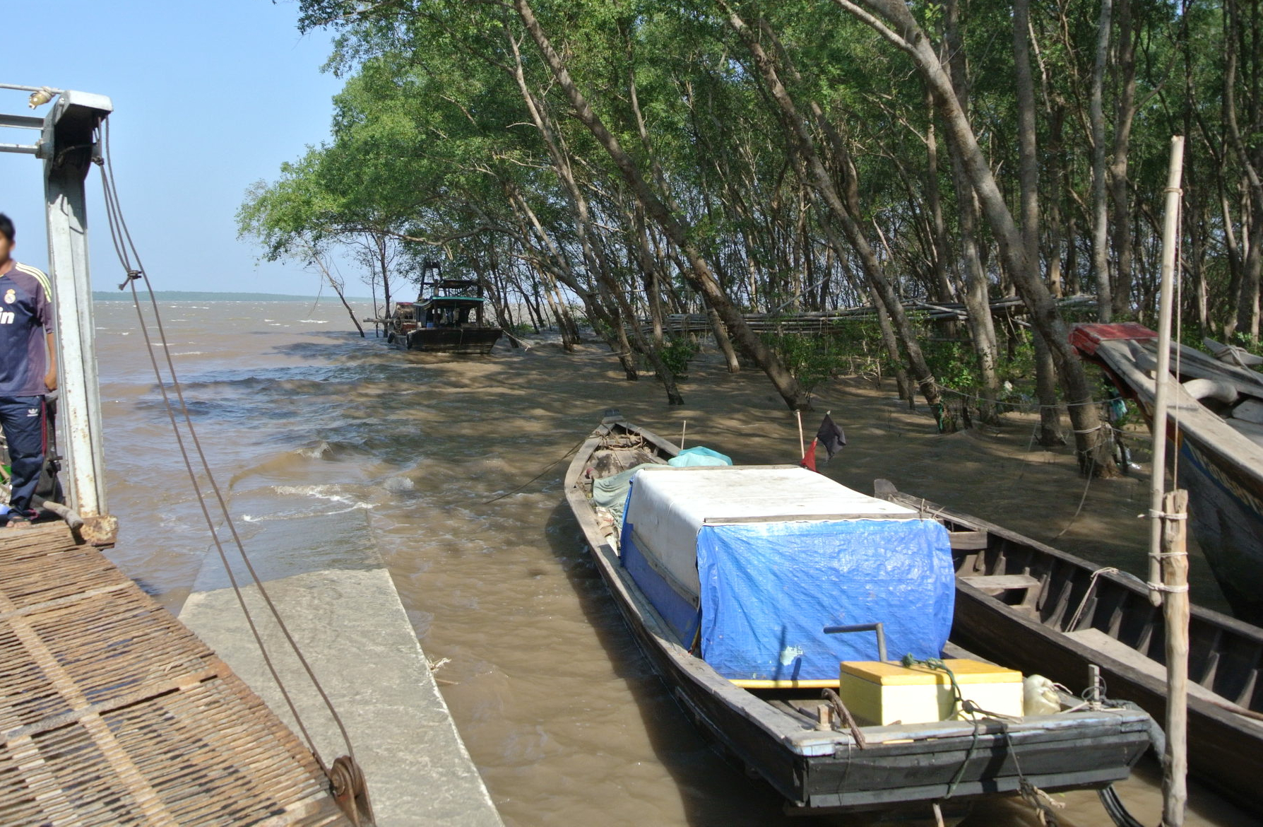 frerry terminal from My Long town Tra Vinh province to Long Hoa village Ben Tre provinde. Vietnam.